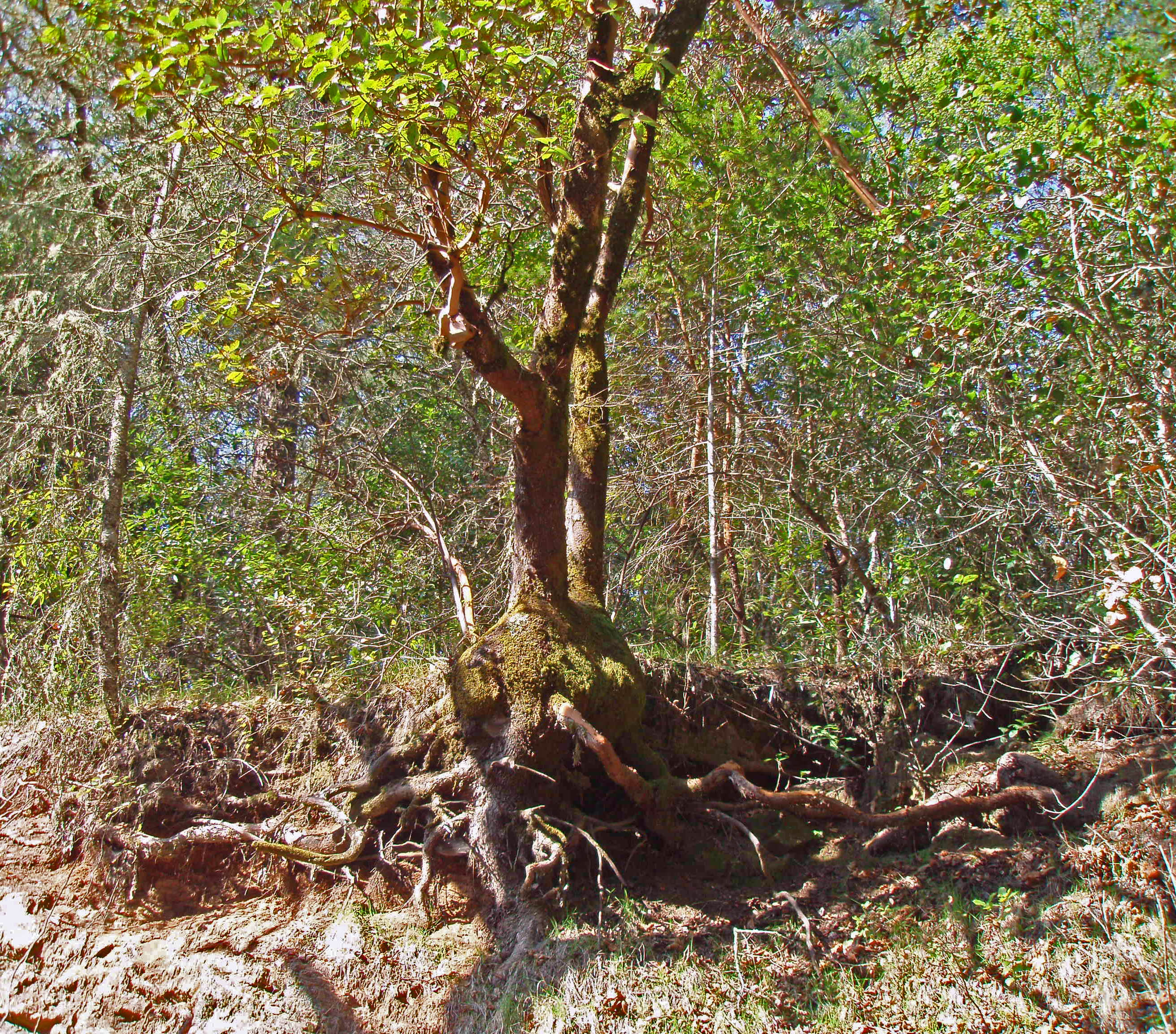 Arbutus menziesii — Pacific Madrone Showing shallow rooting in a road cut area in the upper watershed of Calabazas Creek in the Mayacamas Mountains, Sonoma County, California. Credits high res version date 2007 photographer releases all rights